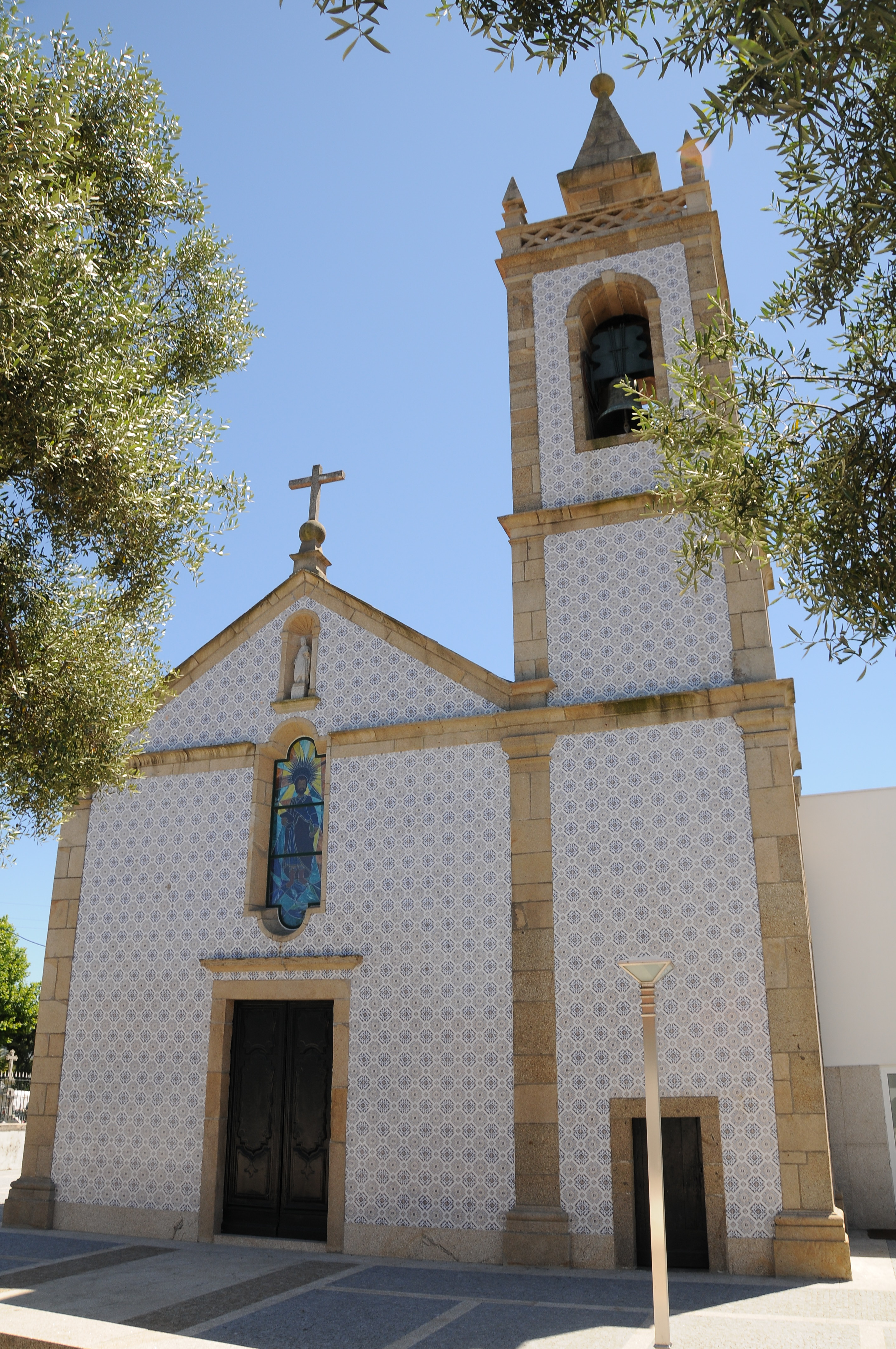 Tamel Church, Barcelos, Portugal.